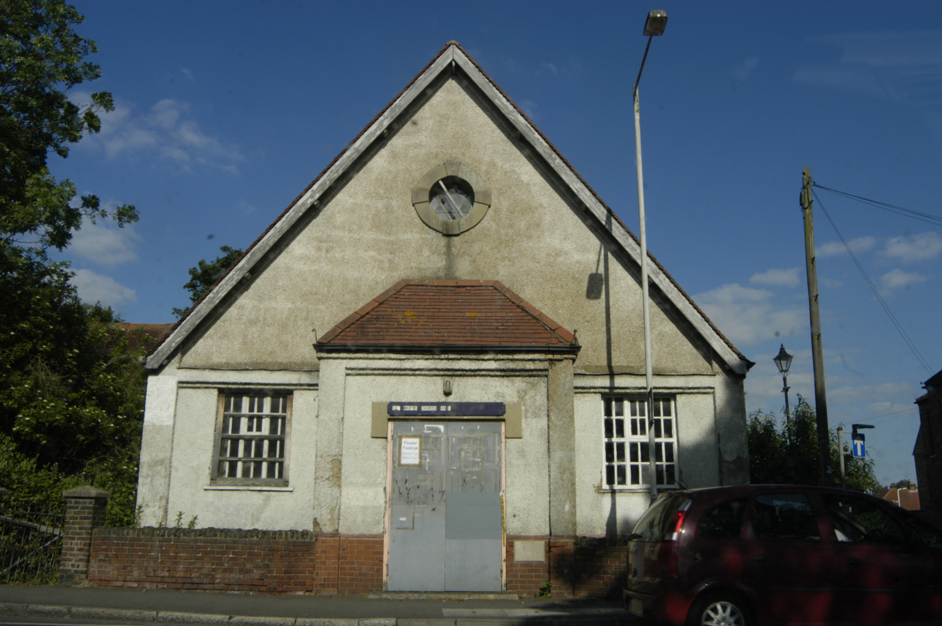 Photo (by me, R. de Salis, Rodolph (talk) 11:42, 23 July 2015 (UTC)) of the church hall of St. Mary the Virgin, Hayes, Middlesex, June 2015.